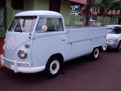 Picture of the Brazilian version of the VW Type 2, pick up, steel trunk.